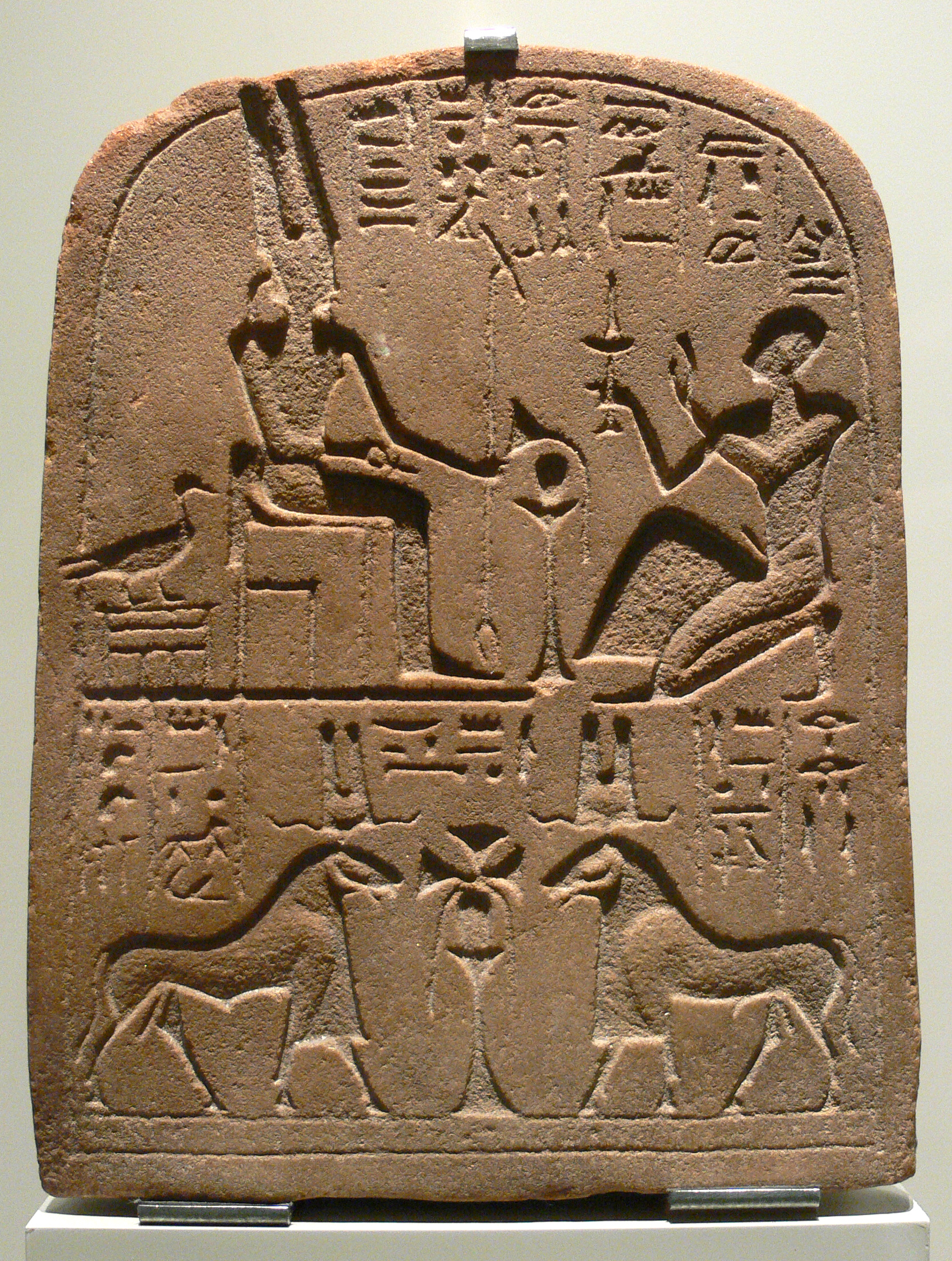 Stela with Amun in various forms (Man, goose, and ram). Sandstone. Found in Abydos. 25th dynasty, c. 700 BC Collection: Ägyptisches Museum Berlin, Inv. 7295